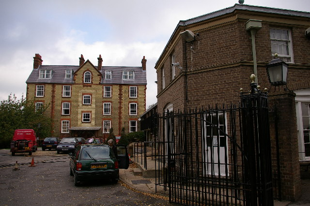 Founded in 1893, St. Hilda's is the only remaining women only college in Oxford University.